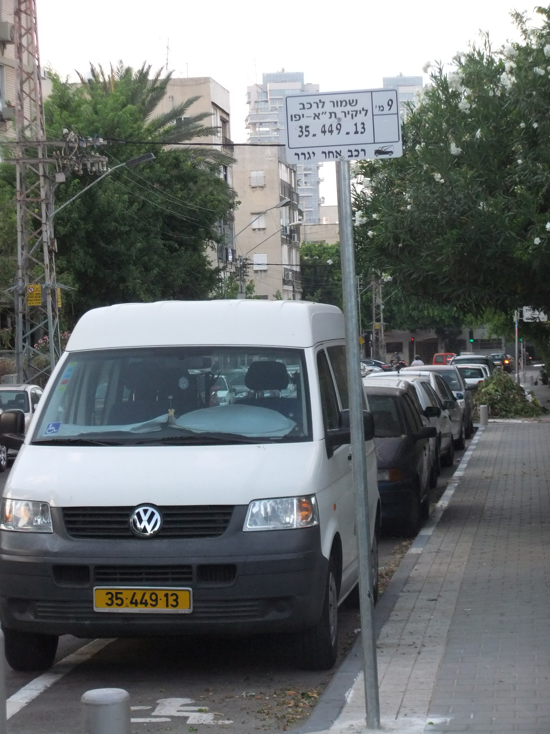 A sign in Tel Aviv indicating the parking place is assigned to a distinguished citizen of Tel Aviv